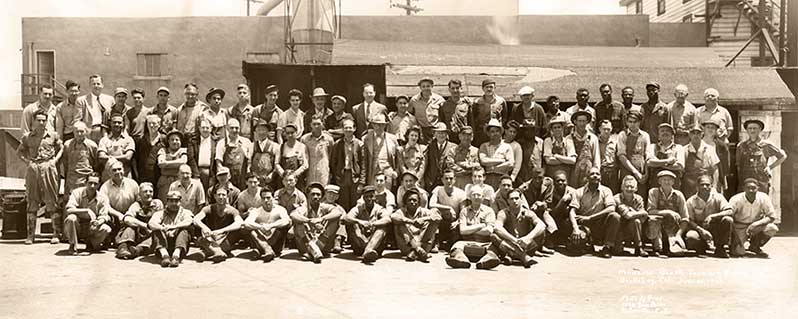 The entire workforce of Manasse-Block Tanning Company from June 26, 1947.